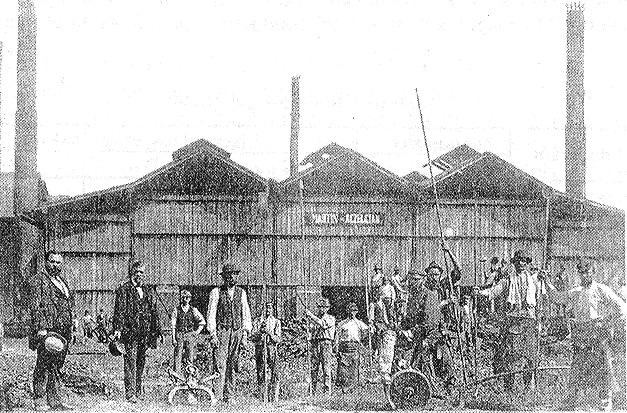 Diósgyőr Martin-steelwork, about 1880